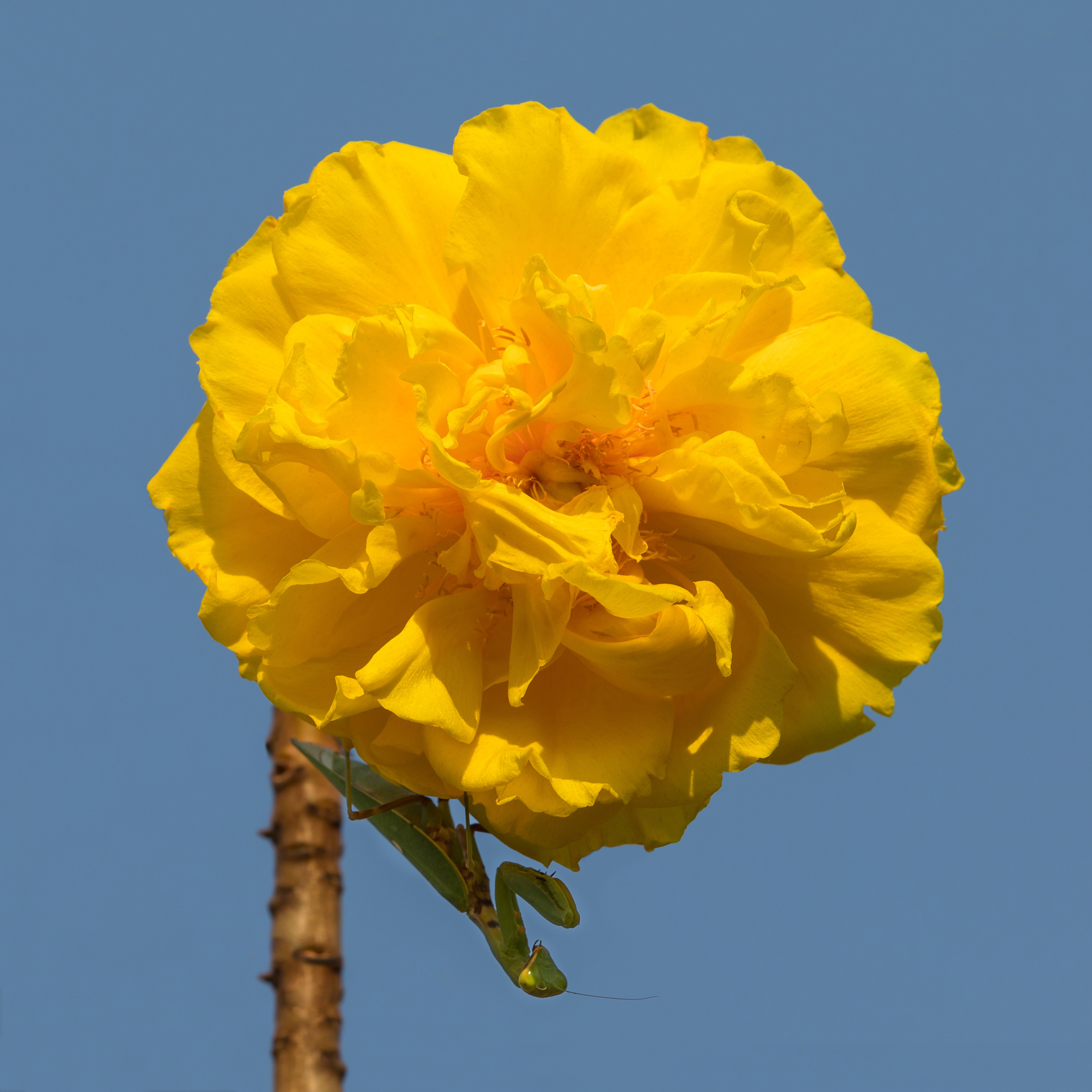 Cochlospermum regium (yellow cotton tree), flower with praying mantis, in the island of Don Tao, Si Phan Don, Laos